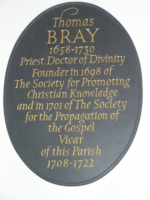 Plaque to a great man within St Botolph, Aldgate